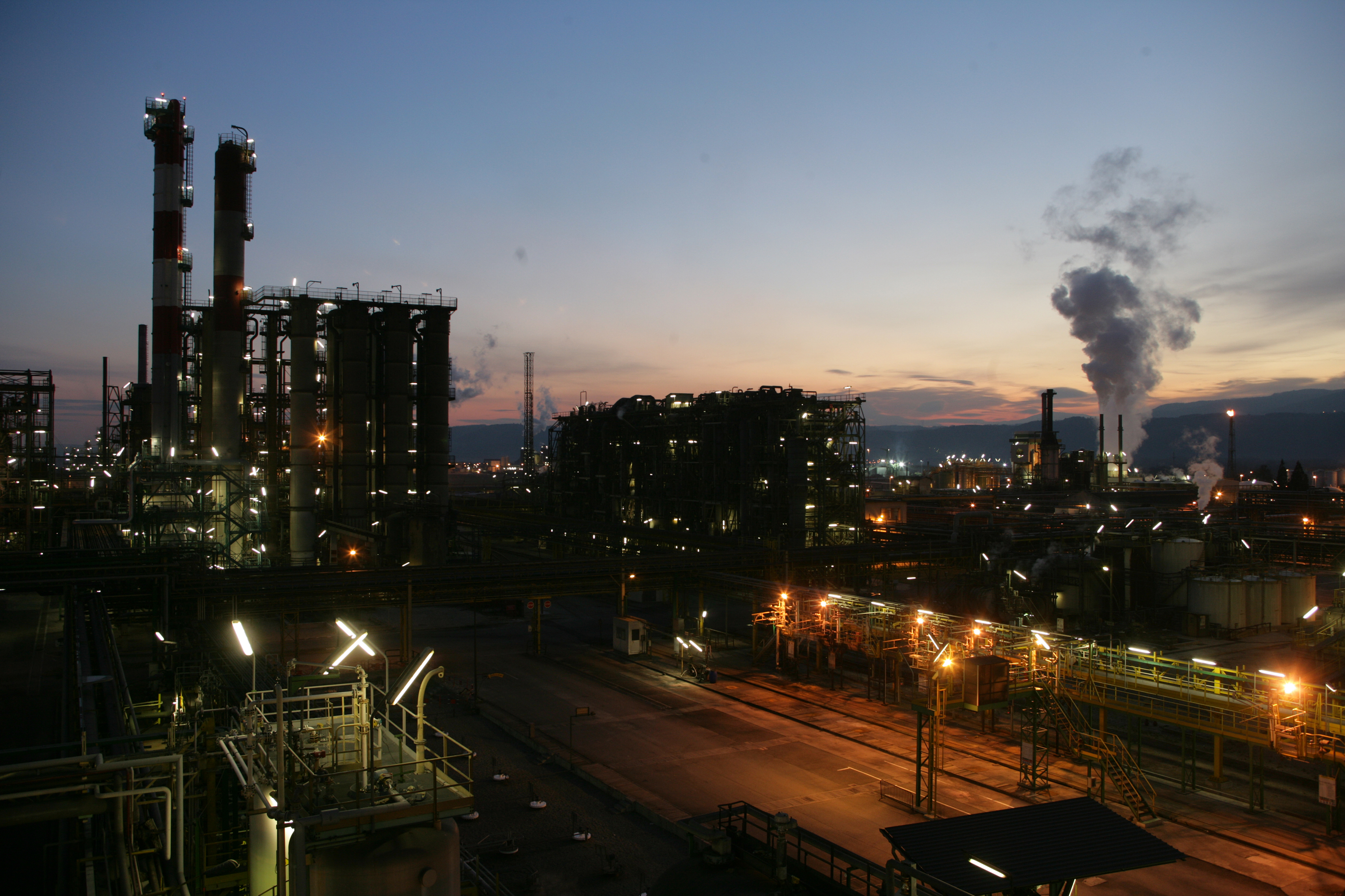 Roussillon factory